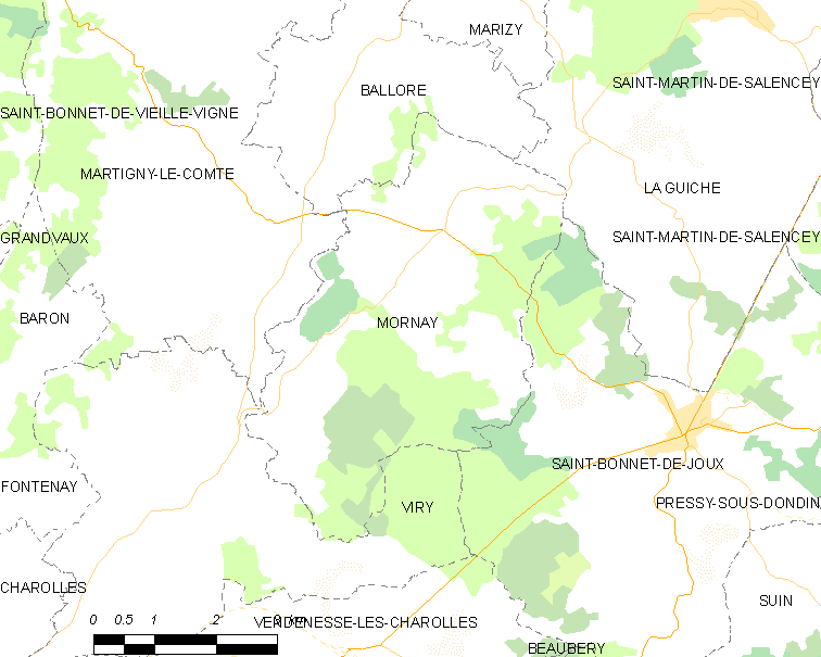 Map of French municipality